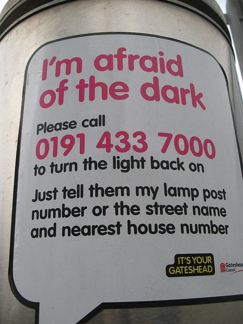 Lamppost, Gateshead Request for condition reports on street lighting. One of these is on every lamppost.